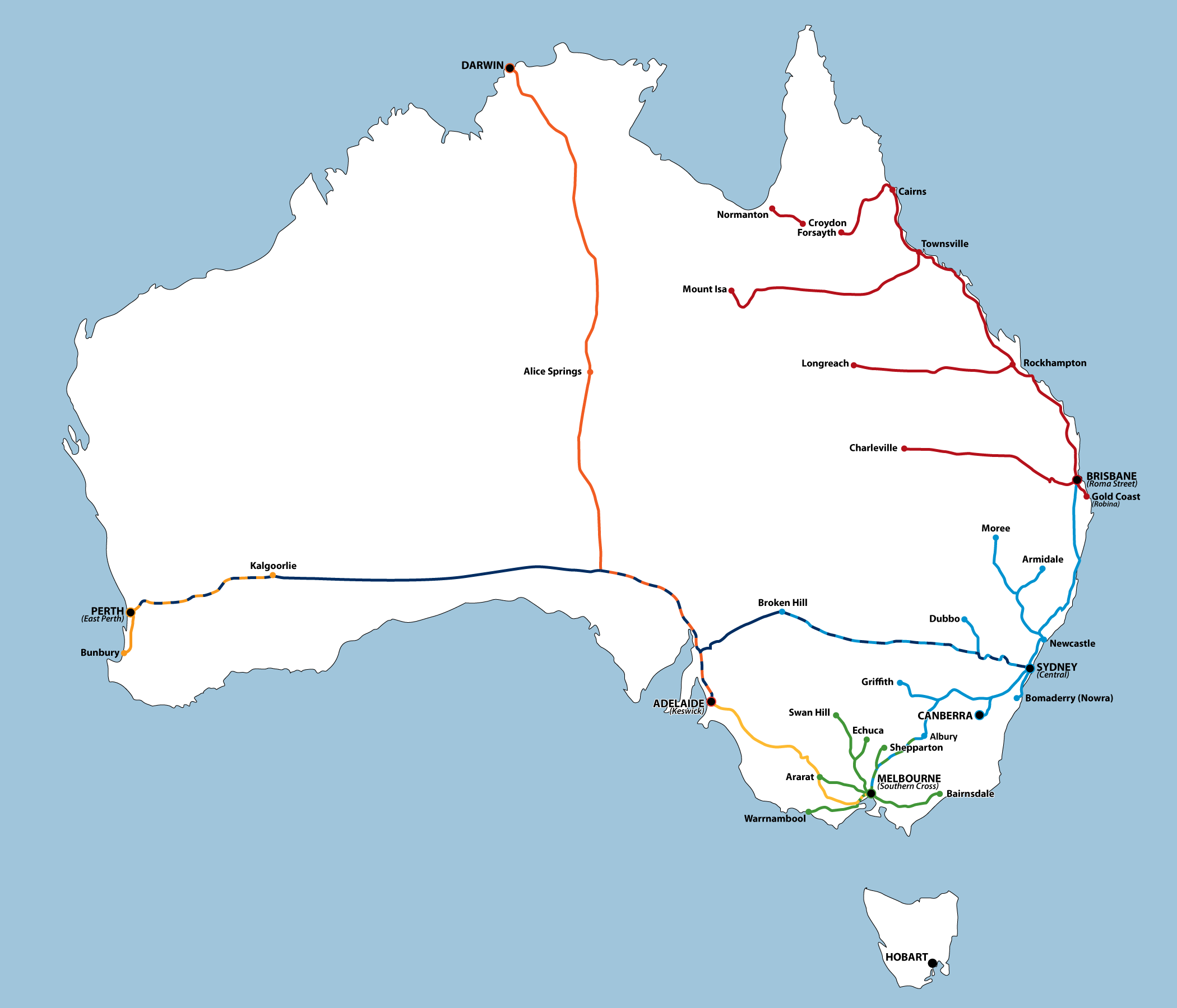 Map of the Passenger rail services in Australia. State Government owned rail services Queensland Rail Traveltrain and City services (Queensland). Sydney Trains and NSW TrainLink services (New South Wales). V/Line services (Victoria). Transwa services (Western Australia). Great Southern Railway lines Indian Pacific The Overland The Ghan Made in Illustrator. If you want to obtain the AI file in order to export as SVG, contact me through my User Page